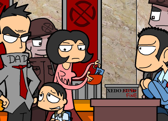 Screenshot of "Xedo Holocaust", in this scene parents pay up to Odex .